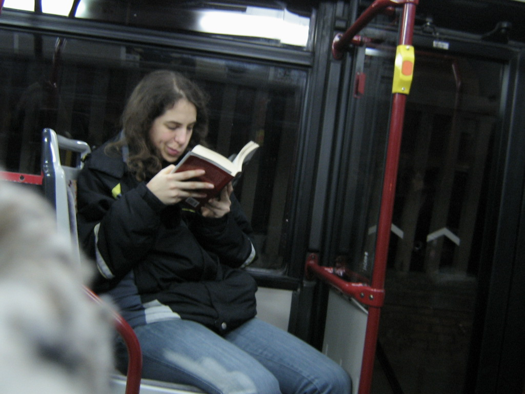 But the book was The Glass Bead Game, by Herman Hesse. Incredible respect!